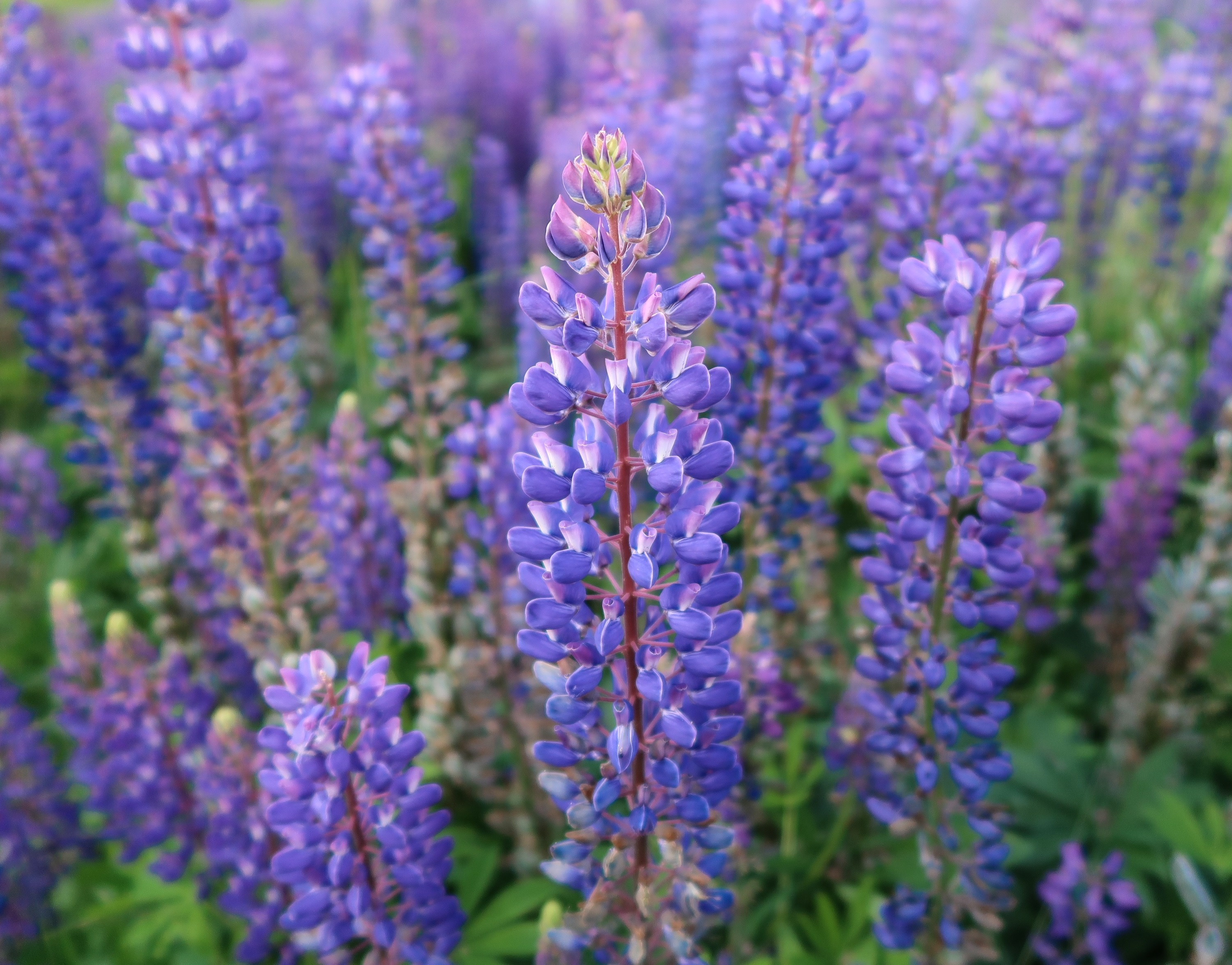 Lupinus polyphyllus inflorescences. This alien species is very usual on roadsides of Southern Finland.